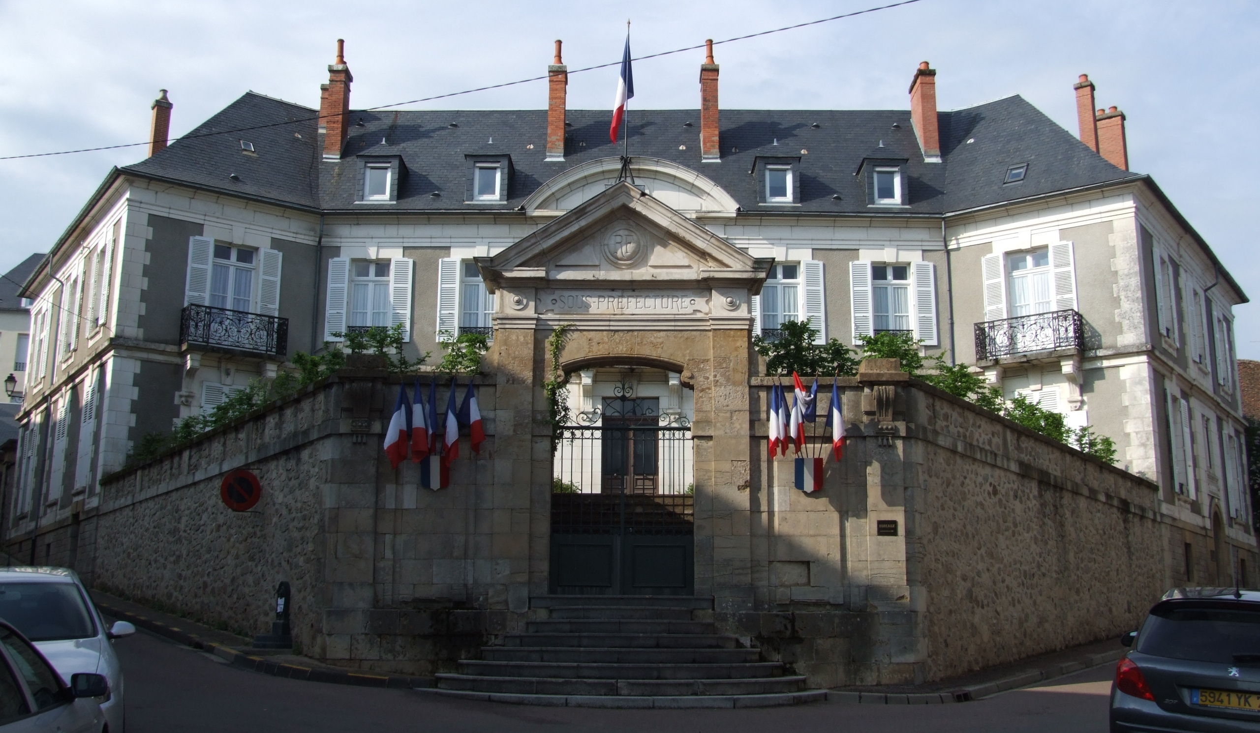 Château-Chinon (Ville), Nievre, Burgundy, FRANCE